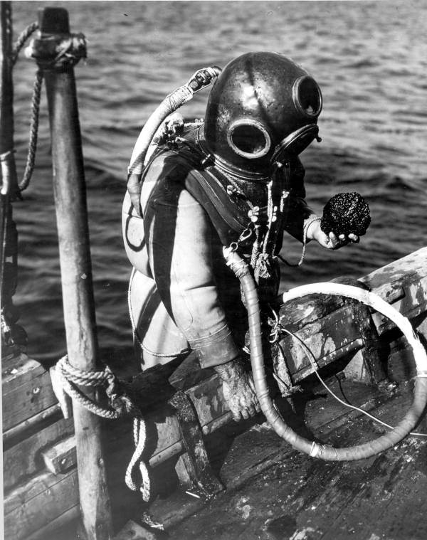 Sponge diver on edge of boat with sponge - Tarpon Springs, Florida